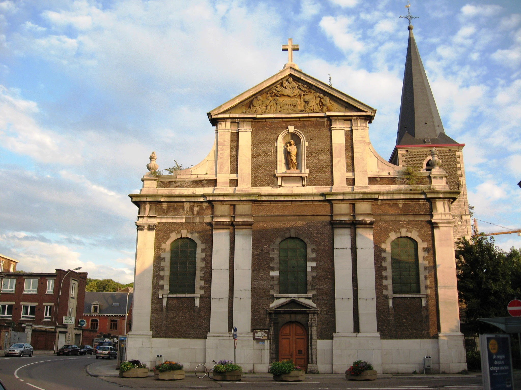 Church of Saint Remaclus in Amercoeur, Liège, Liège, Belgium